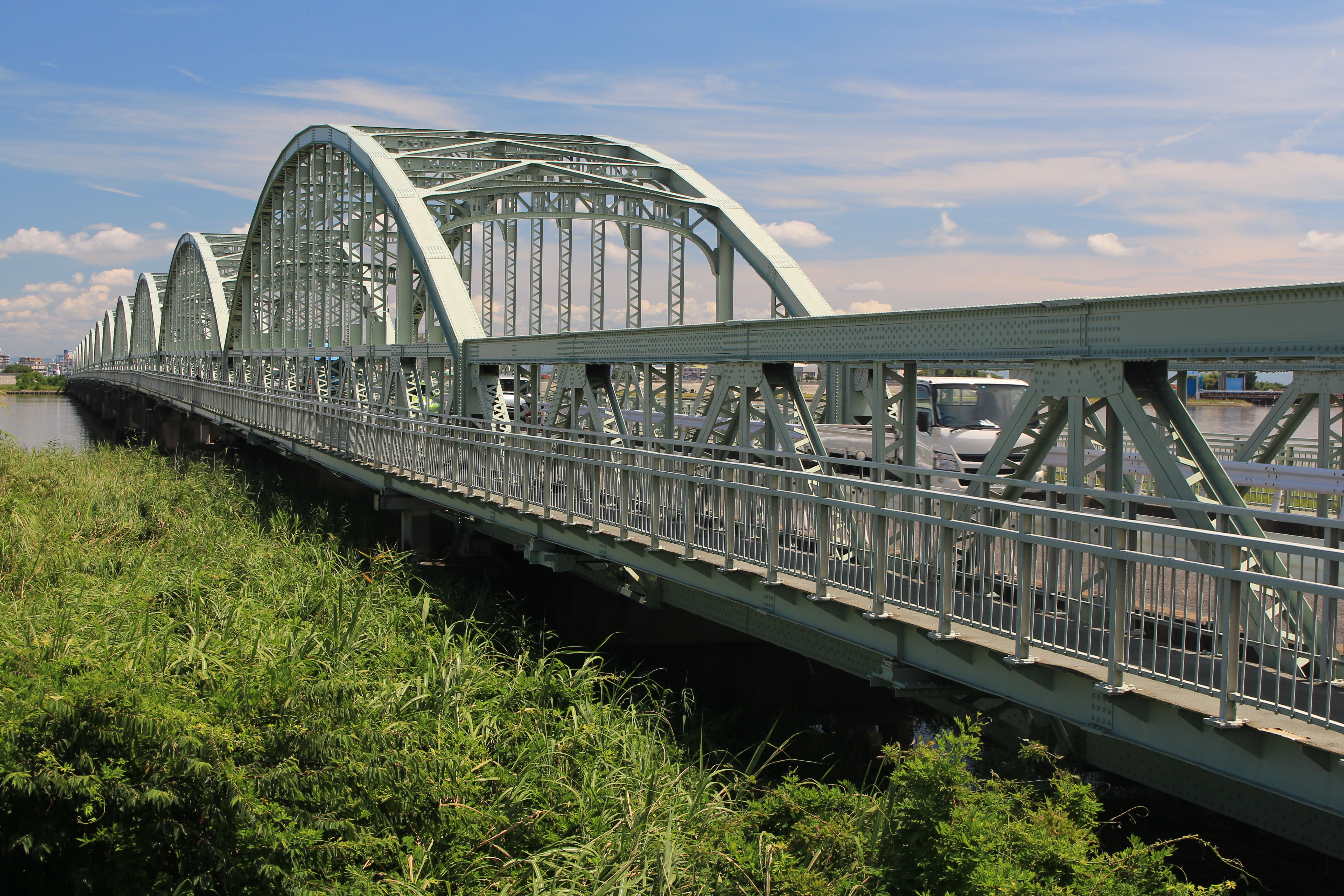 Owari Bridge of Route1 over Kiso River in Japan.